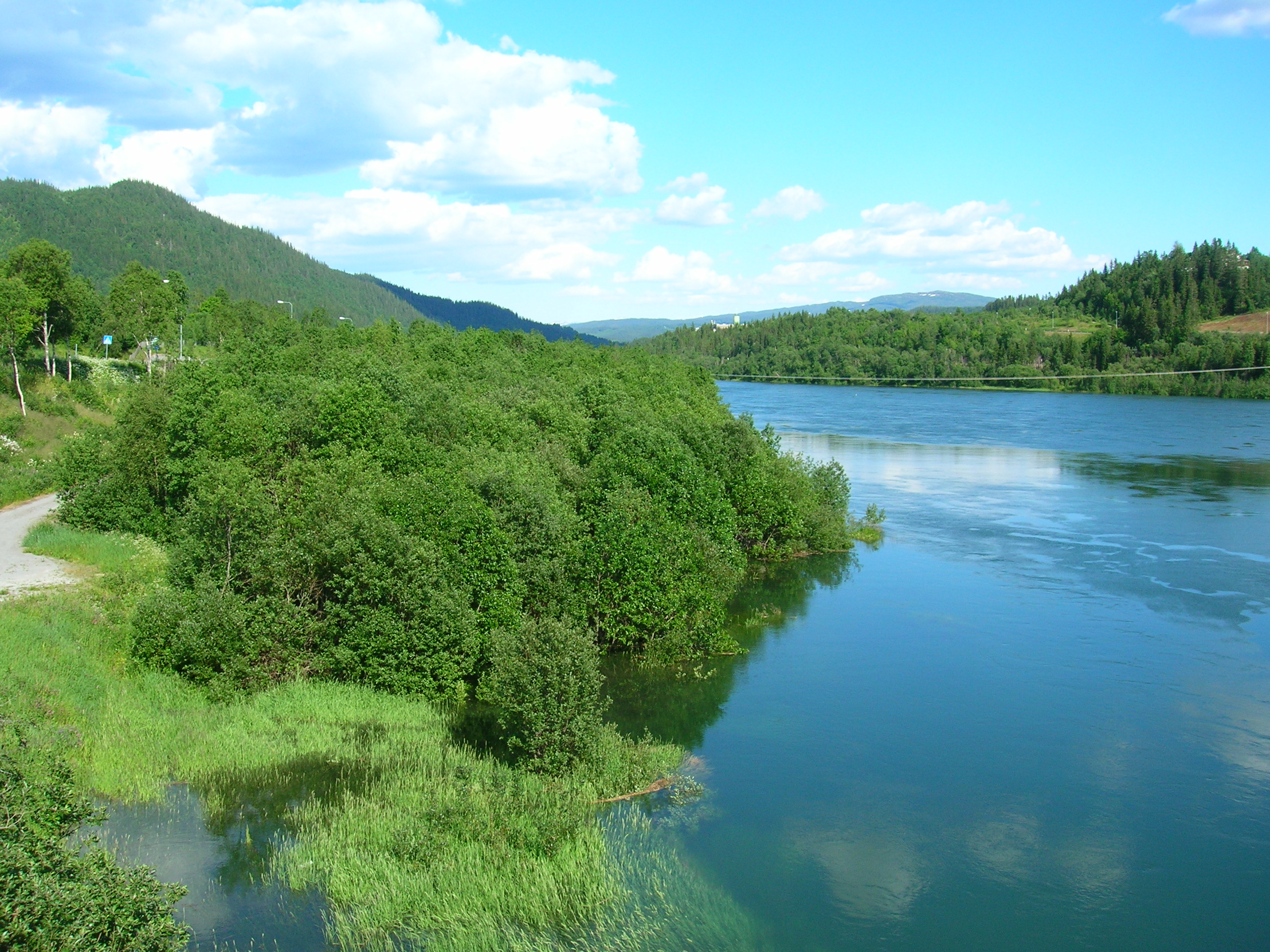 Ranelva seen from Selfors in Mo i Rana, Nordland, Norway. Photo July 4, 2007 with a Nikon Coolpix 5600 5,1 Megapixel camera.